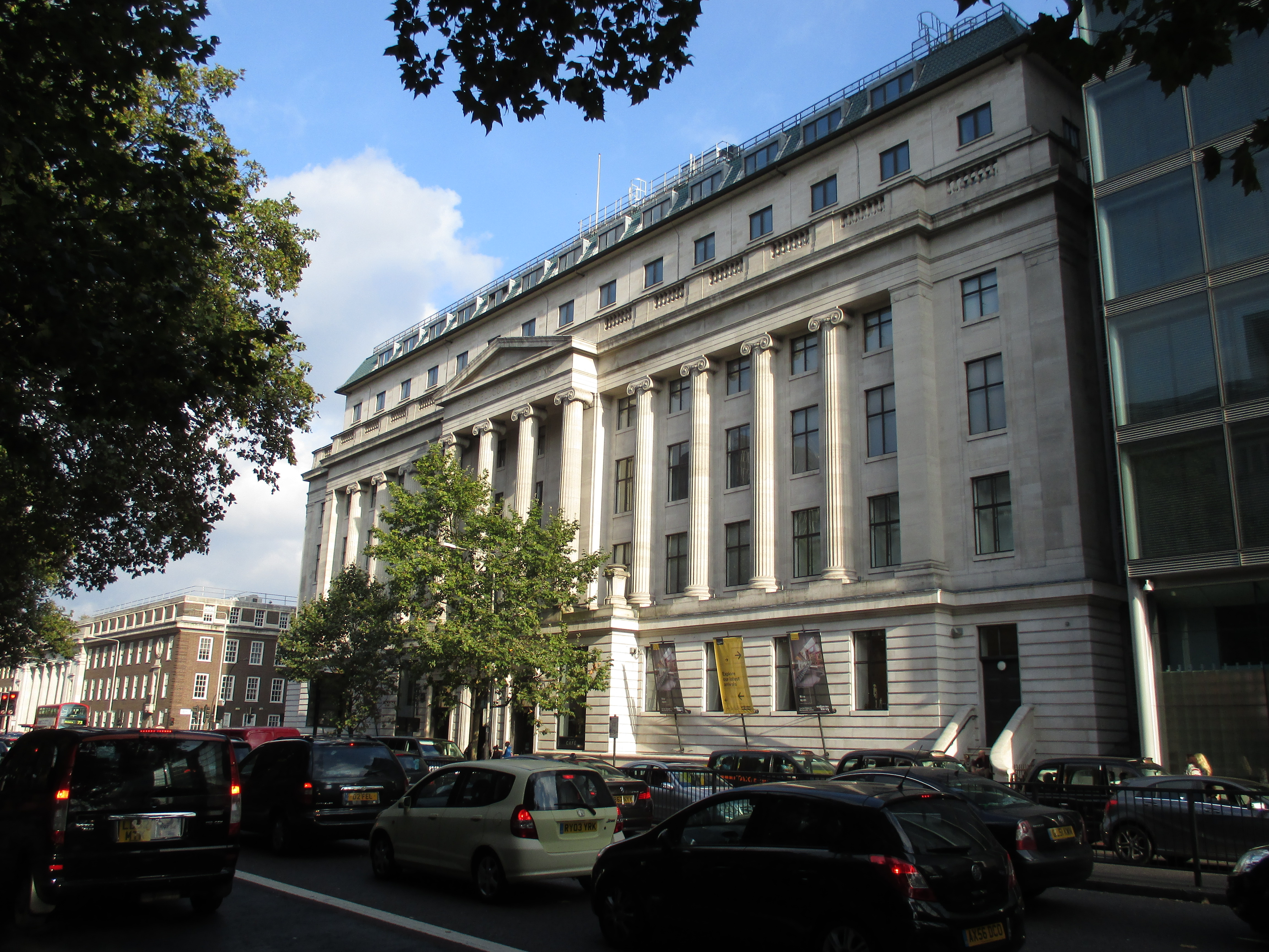 The Wellcome Building, Euston Road, London, photographed from the west.